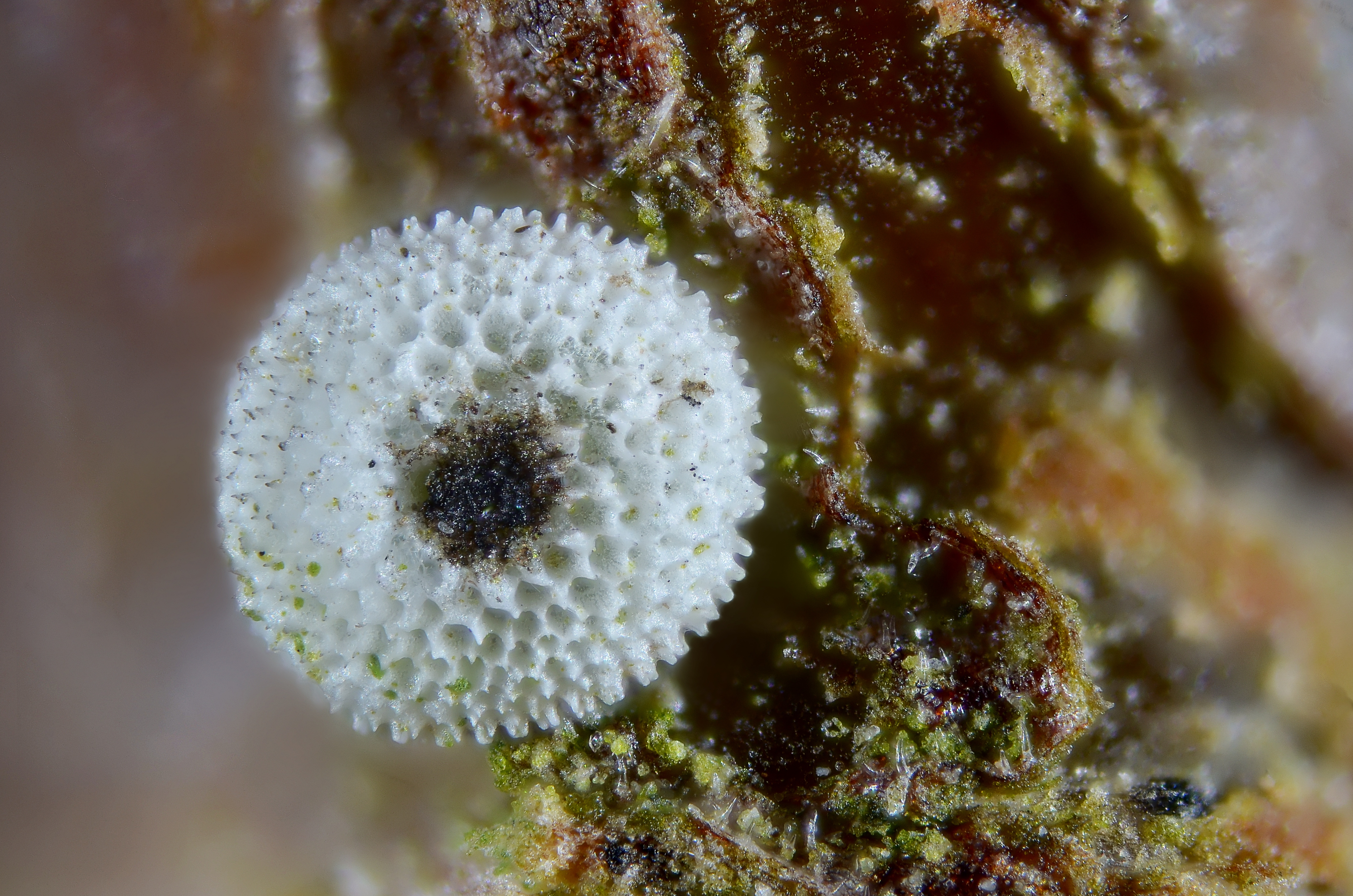 Egg of the butterfly Thecla betulae on a Prunus spinosa twig scale : egg width = 0.9 mm Technical settings : - focus stack of 59 images - microscope objective (Nikon achromatic 10x 160/0.25) on 68mm extention tubes + 30 mm adapter